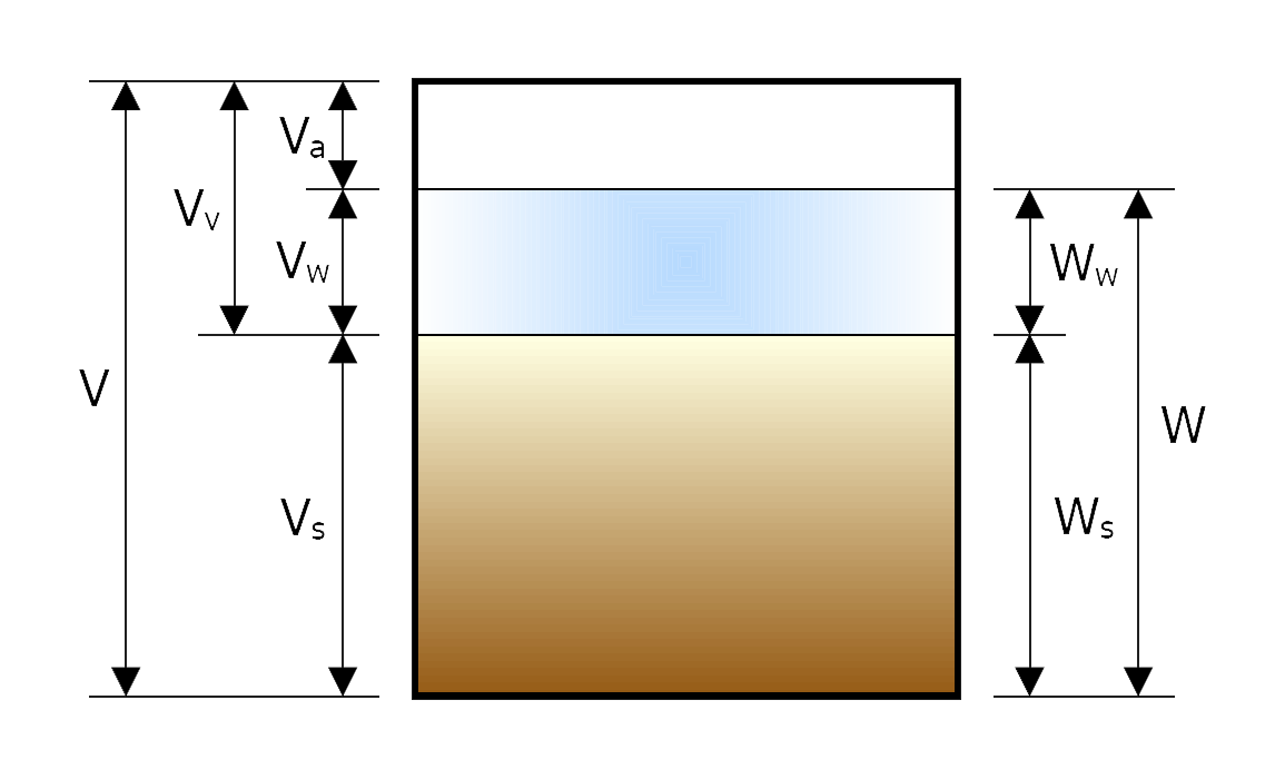 Soil composition. Subscripts s, w, a stand for solids, water and air respectively.